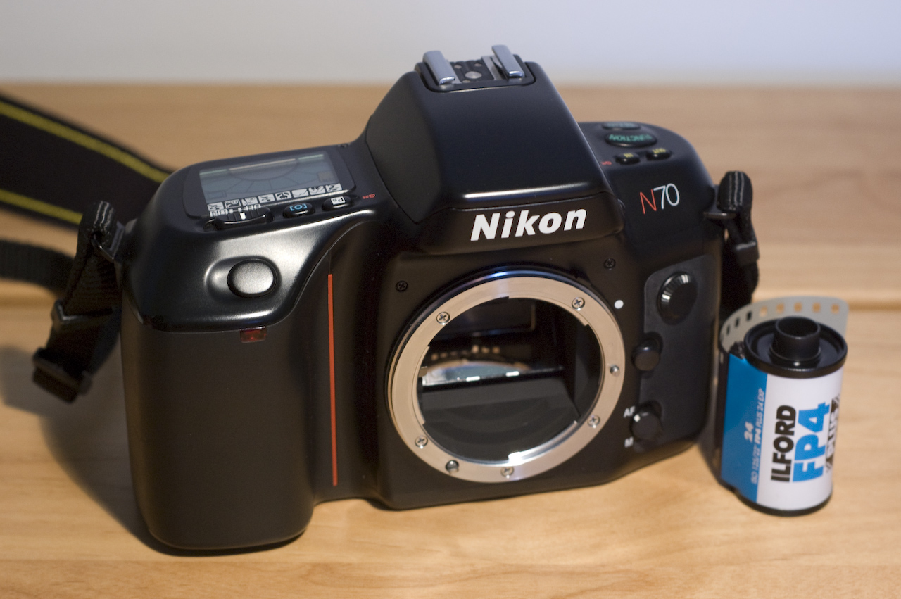 Nikon N70 35 mm film SLR camera body.